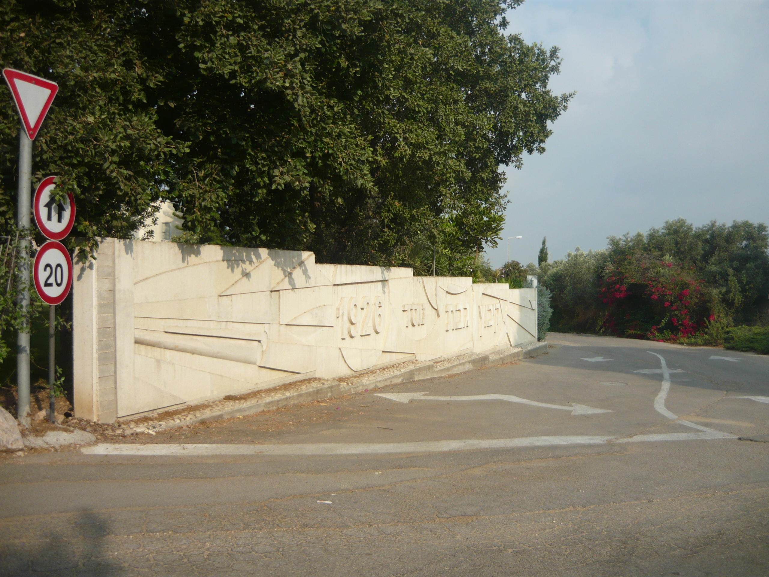 entrence to Kibutz Gvat הכניסה לקיבוץ גבת